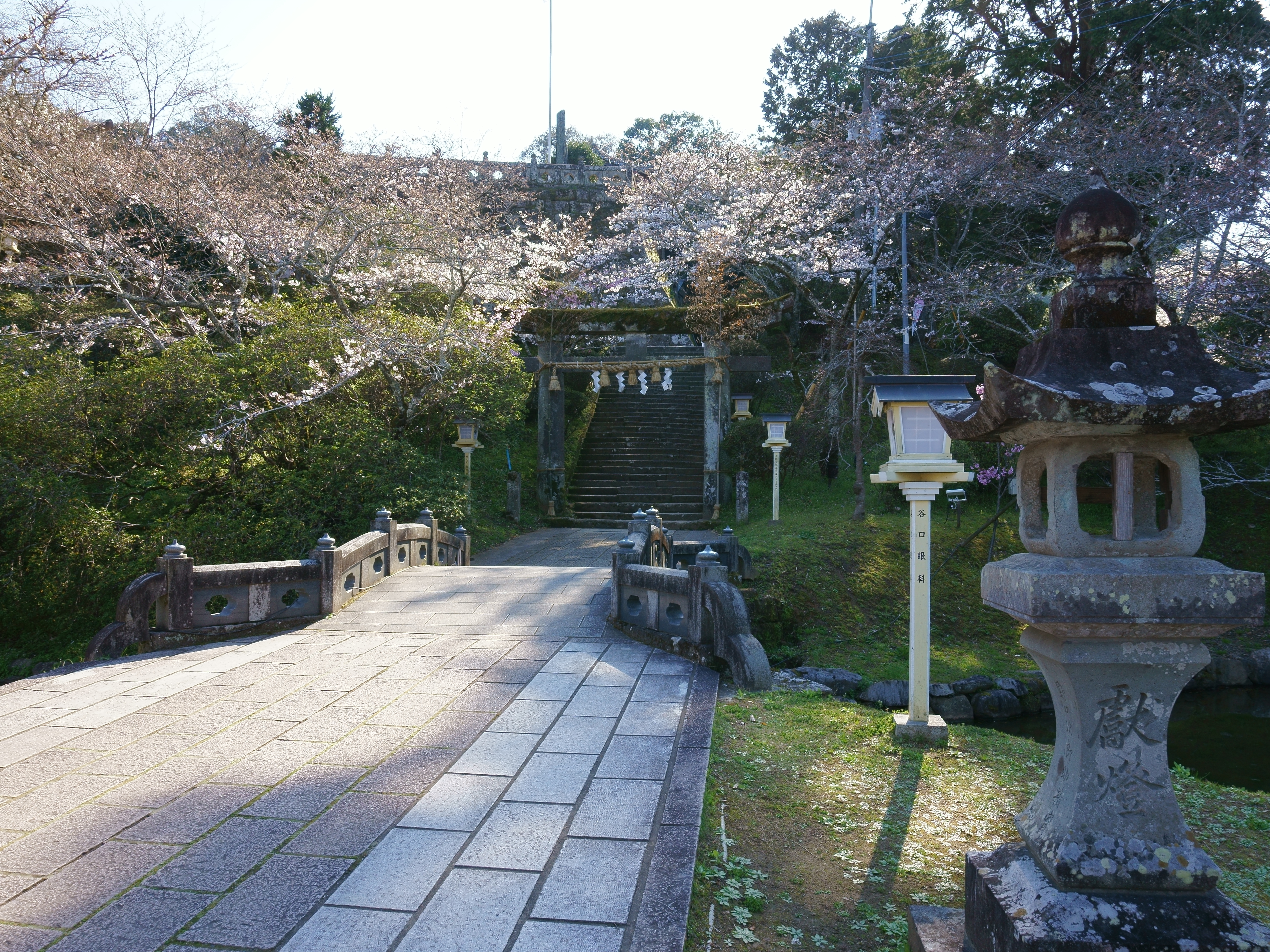 The second Torii and the bridge of Takeo Shrine, in Takeo city, Saga prefecture.